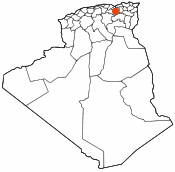 Blank map of the provinces of Algeria with a red city locator dot. Made by User:Escondites, blank version by User:Golbez.